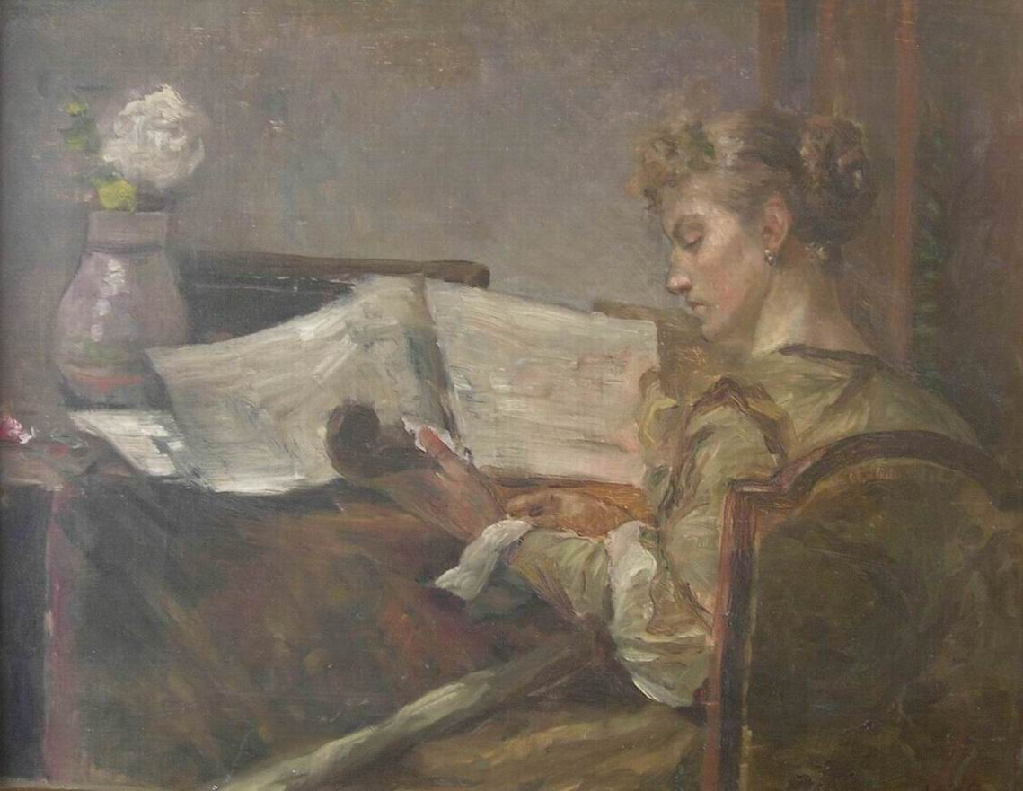 painting showing his sister in law Friederike Bobies